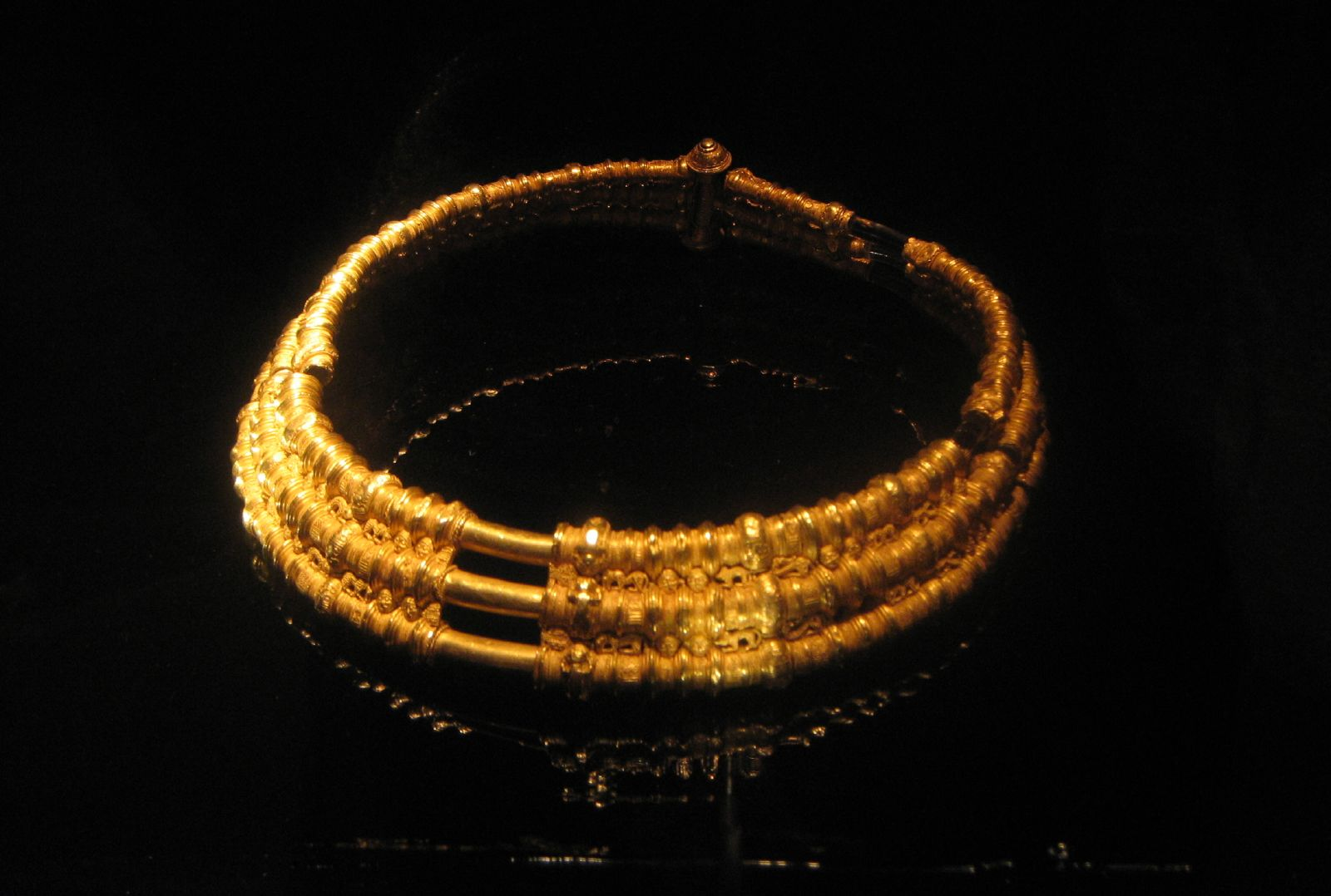 Golden neck rings from Ålleberg, Sweden. Dates to the Migration period. On display at The Swedish Museum of National Antiquities